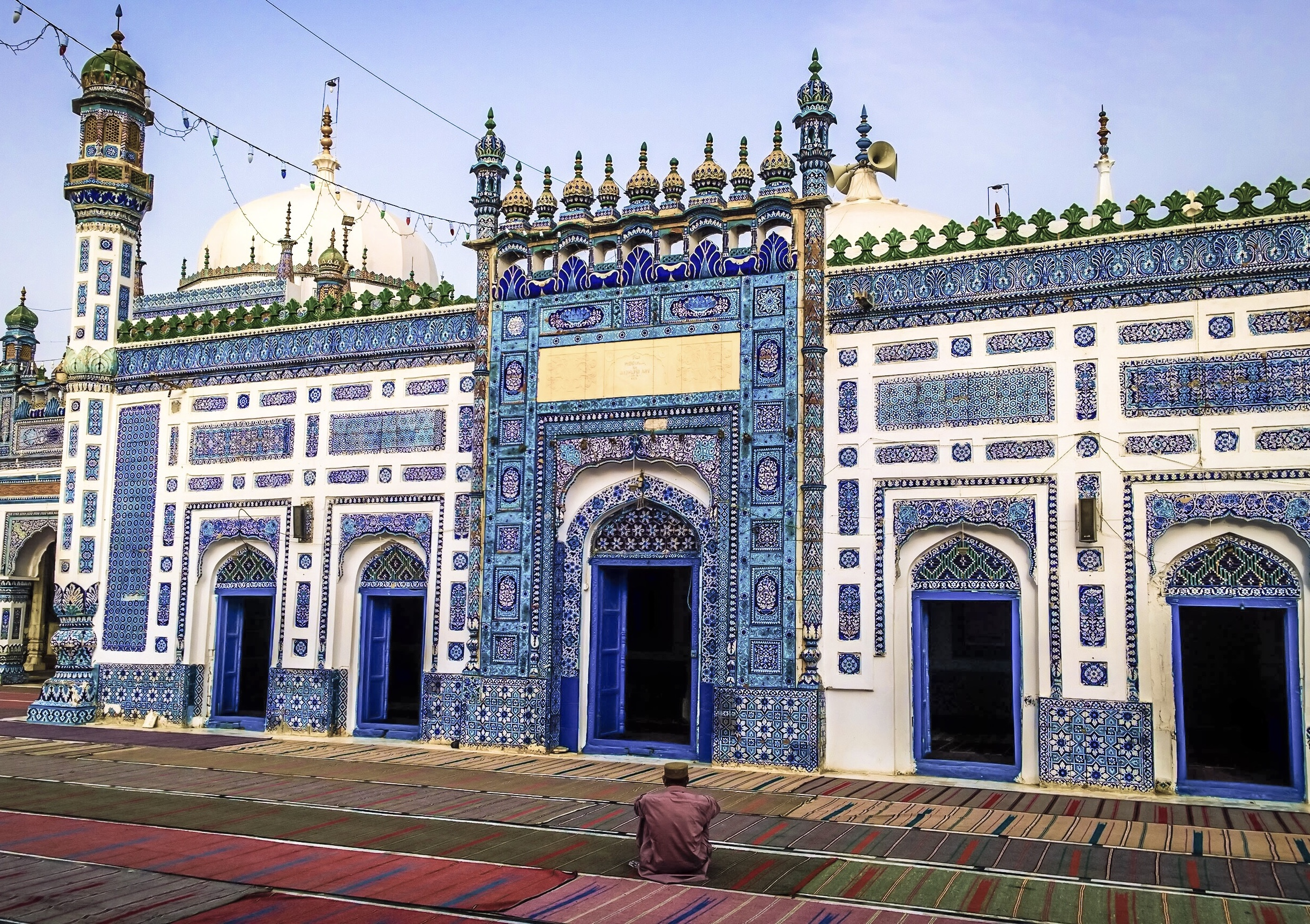 Shrine of Shah Abdul Latif Bhittai This is a photo of a monument in Pakistan identified as the SD-P-7